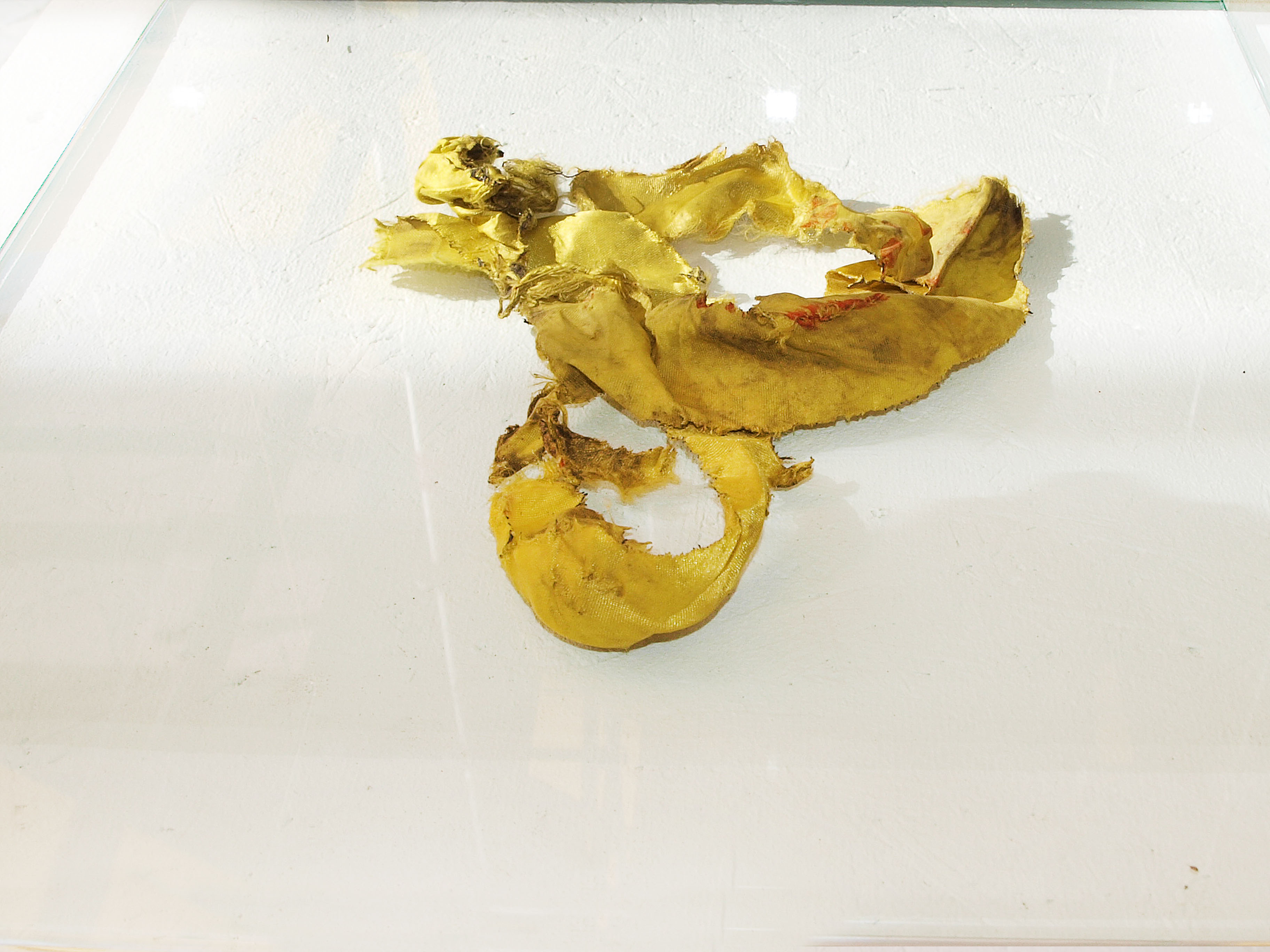 Ukrainian flag from the TV tower on Karachun hill On May 14, 2014 two servicemen - Myroslav Hai of the National Guard and the paratrooper of the 95th Airmobile Brigade Serhiy Shevchuk installed this flag at the top of a 120 meters tall TV tower at the Karachun hill near Sloviansk. The TV tower was destroyed in the course of militant attacks, but Myroslav Hai risked his life to get the piece of the national banner and brought it home. Exhibition Ukrainian flags-relics at St. Sophia Square in Kyiv (23-25 August 2015)